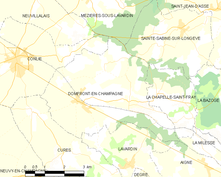 Map of French municipality